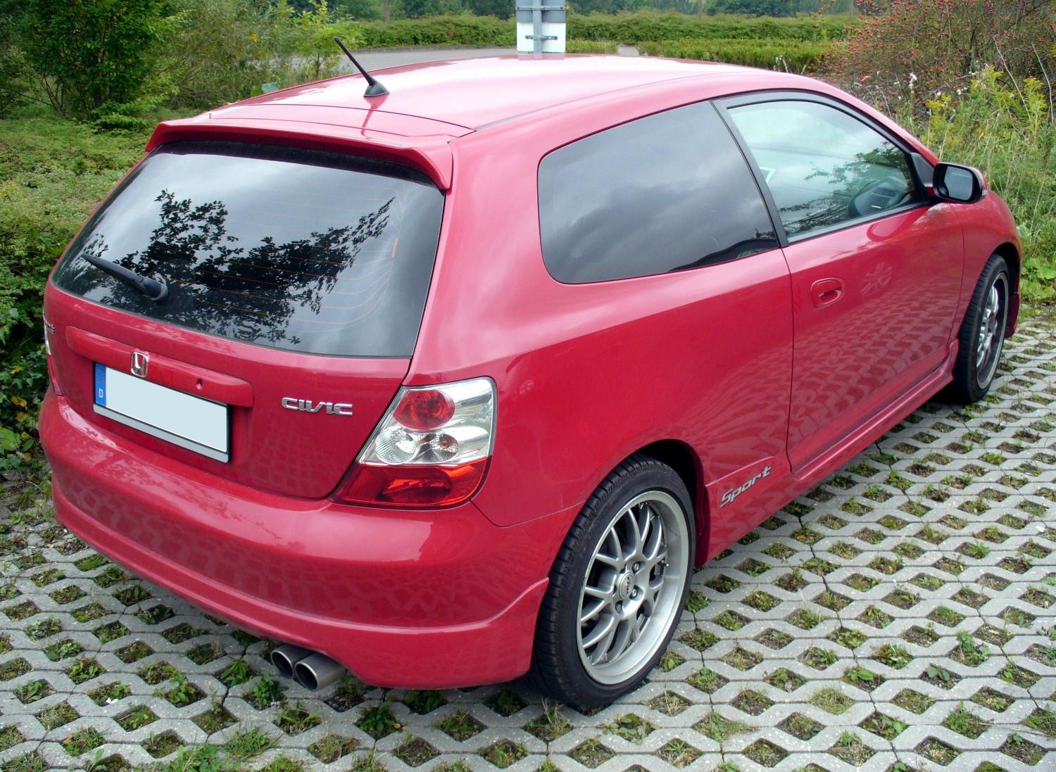 Honda Civic Sport